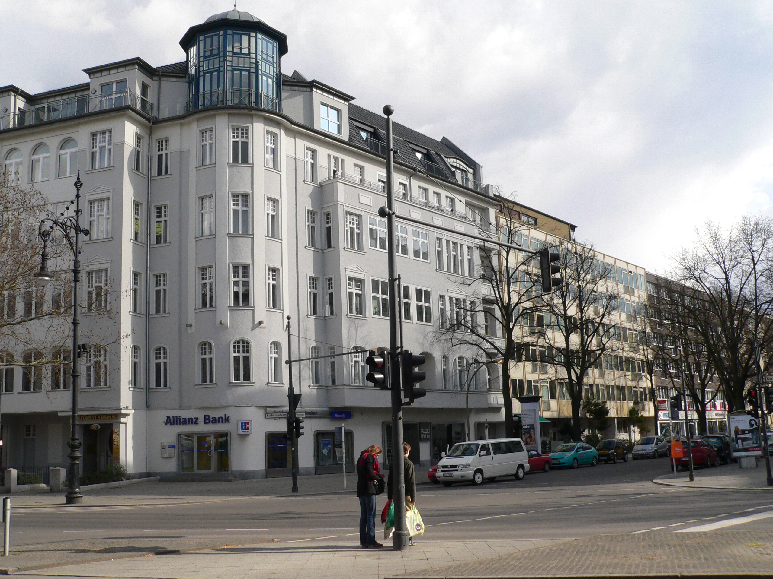 Berlin-Halensee Nestorstraße and Kurfürstendamm Berlin-Halensee Nestorstraße/Ecke Kurfürstendamm